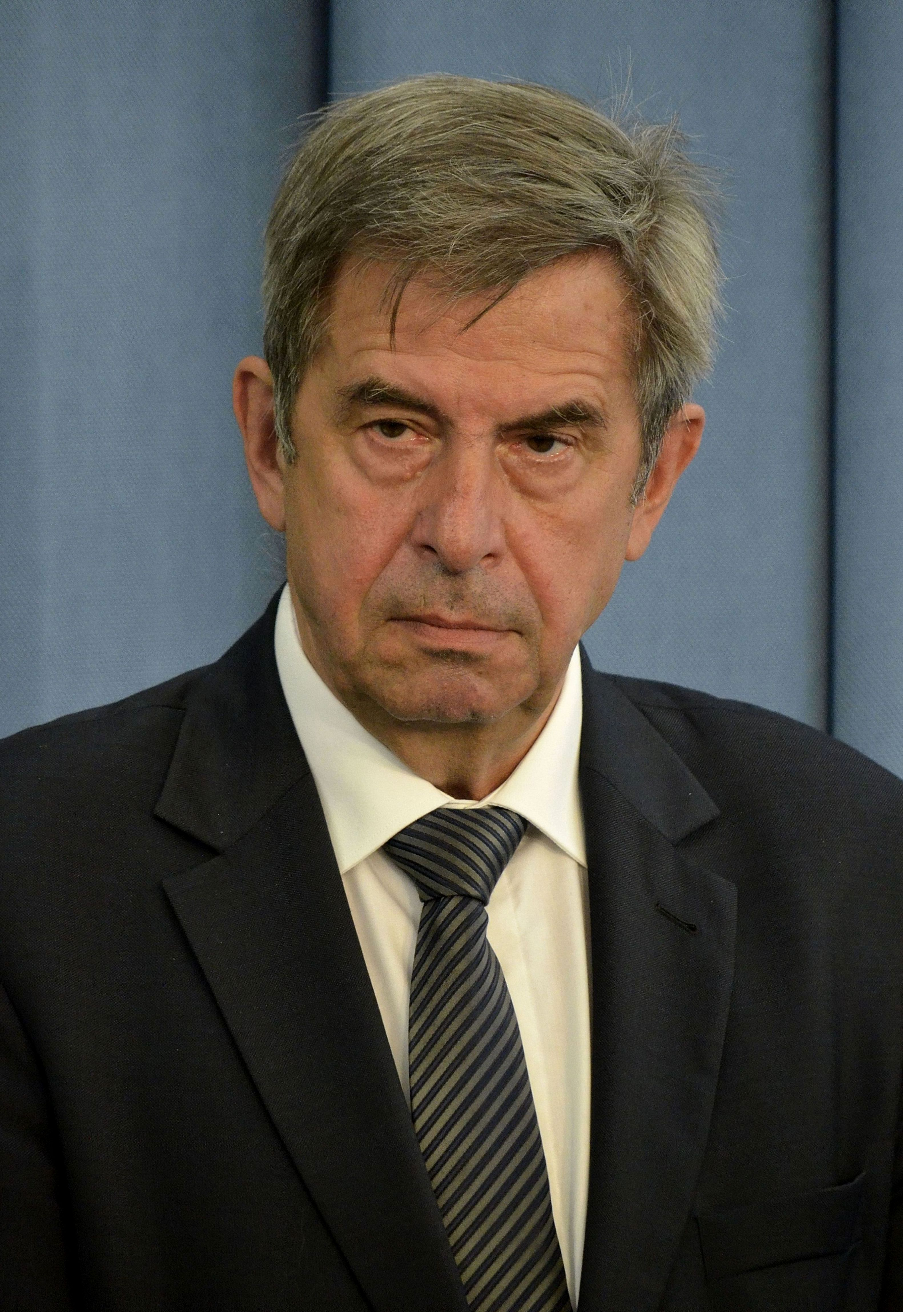 Professor Andrzej Zoll in the Sejm